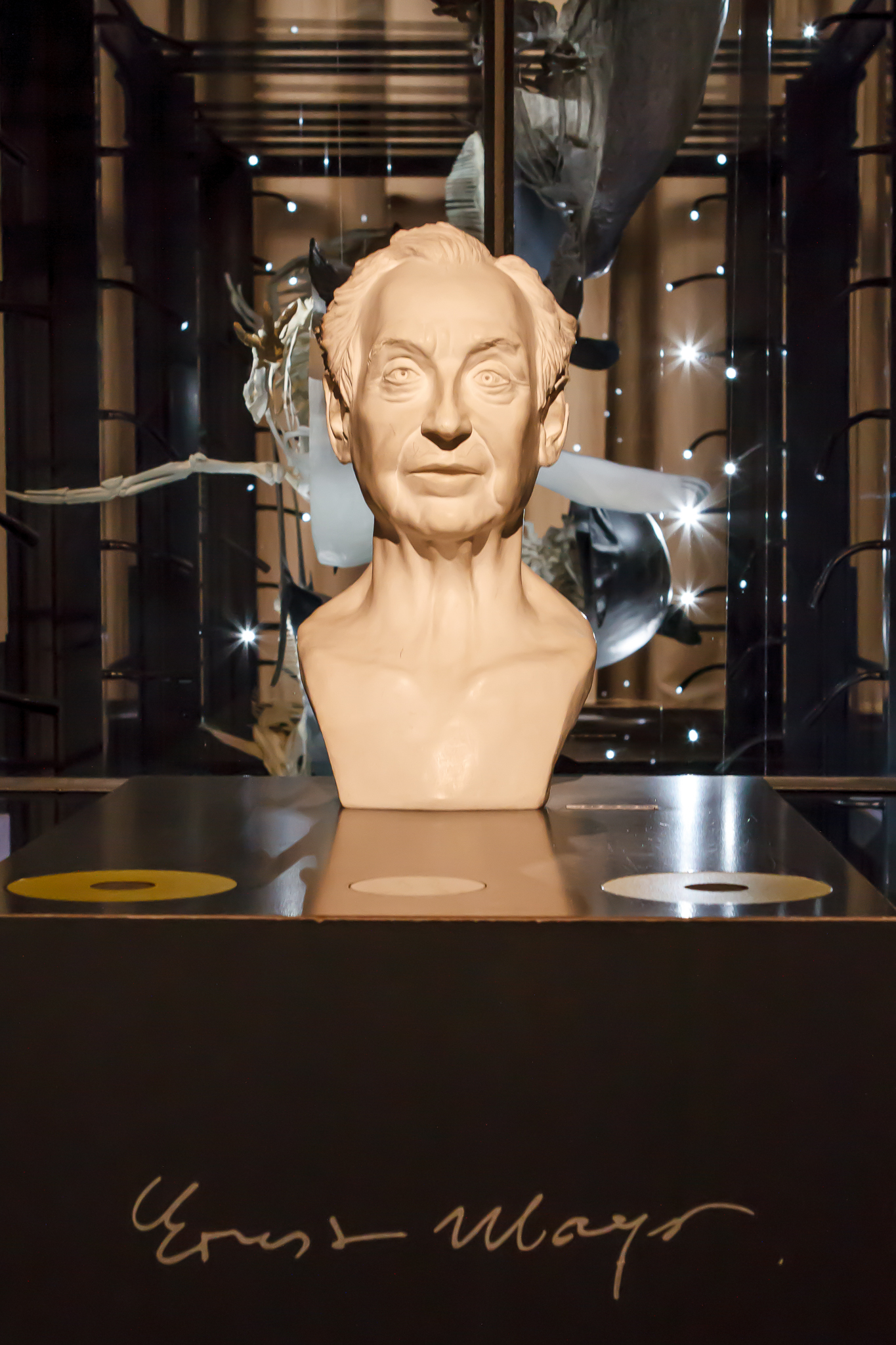 Ernst Mayr - Bust - Museum für Naturkunde - Berlin